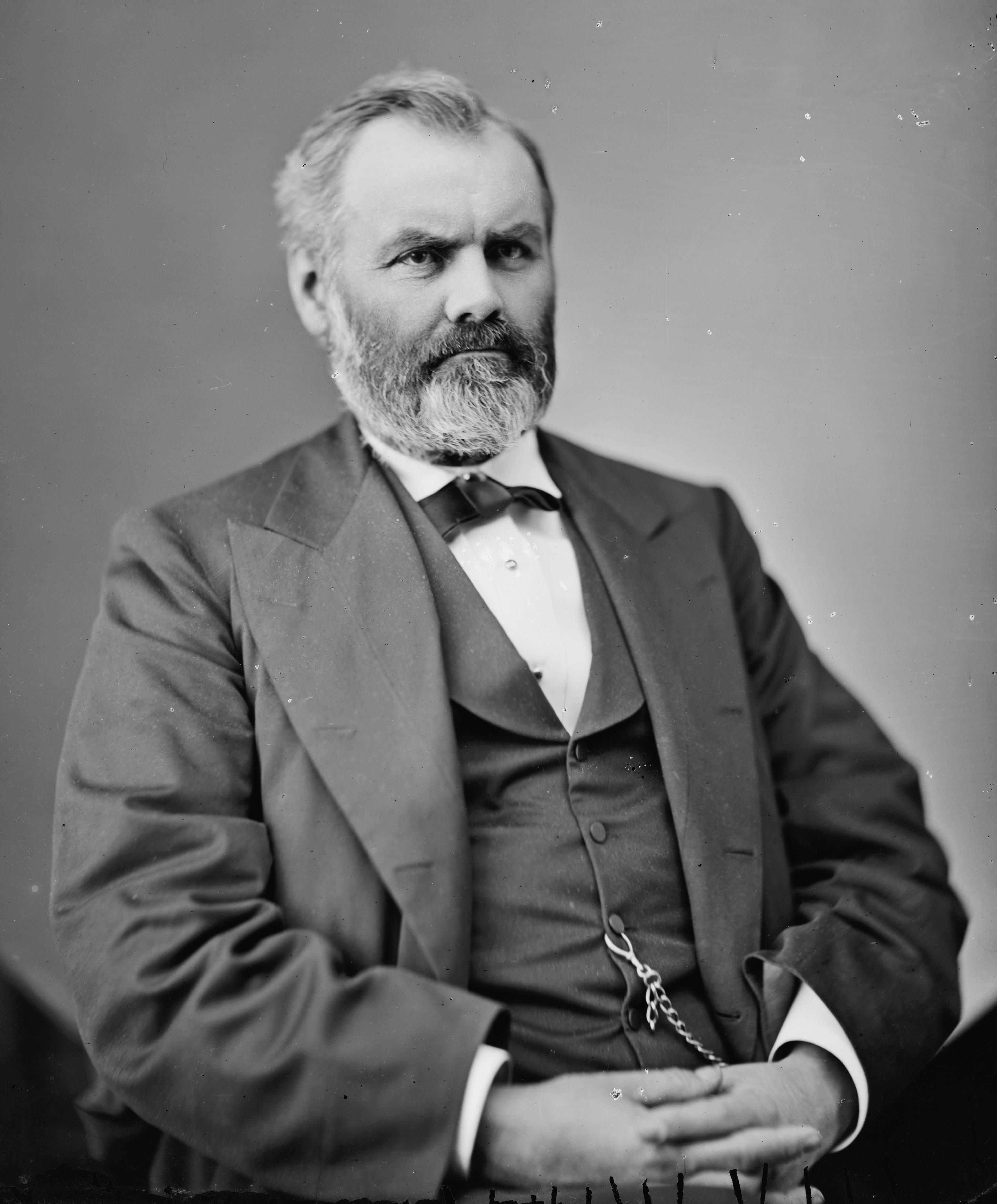 James H. Slater. Library of Congress description: "Slater, Hon. James Harvey of Oregon"